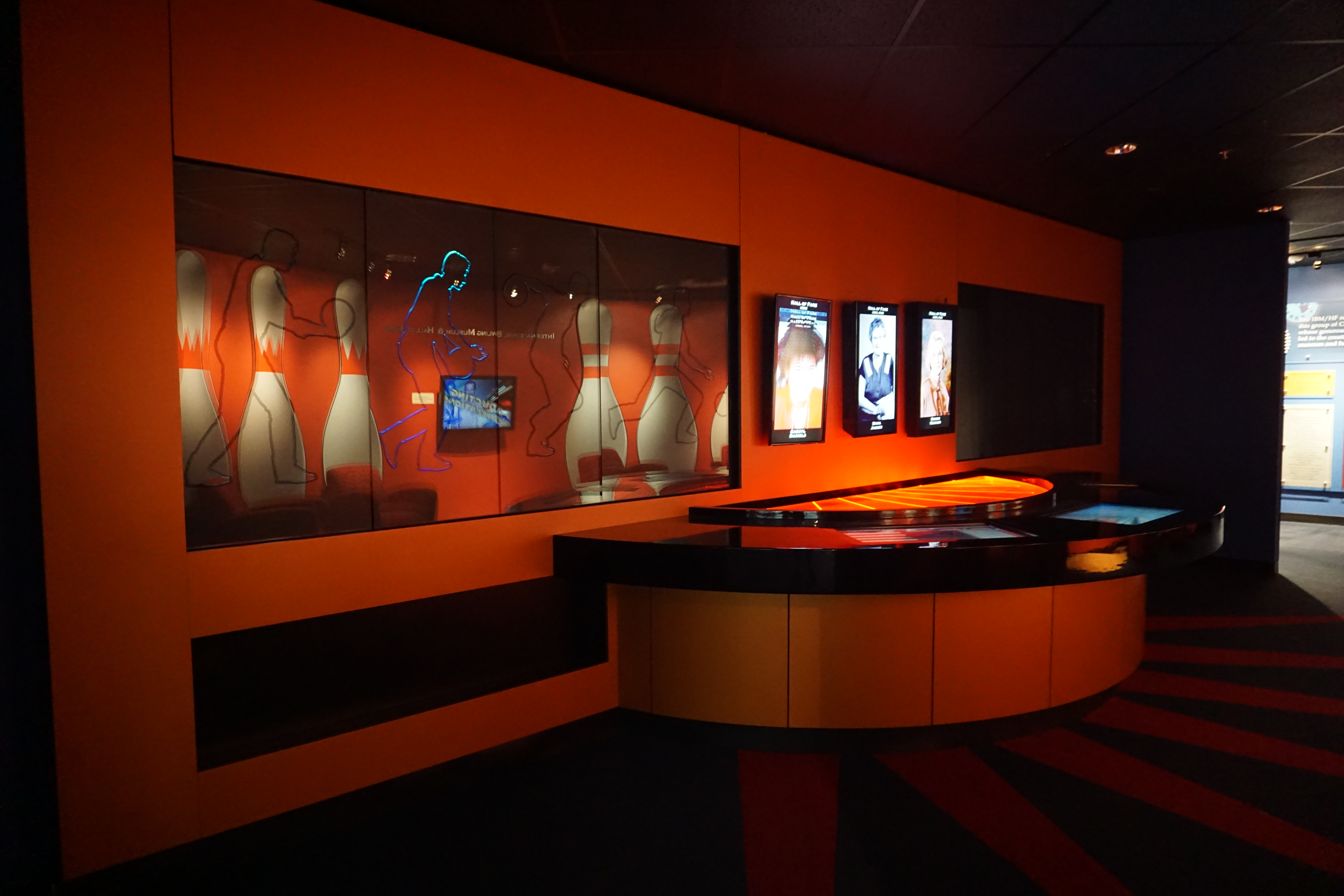 The Hall of Fame at the International Bowling Museum and Hall of Fame in Arlington, Texas (United States).